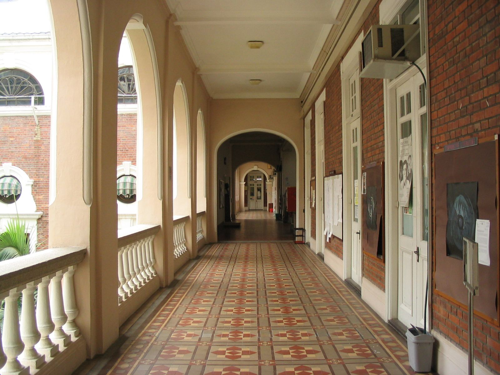 香港大學-本部大樓 Main Building, The University of Hong Kong